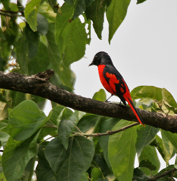 Scarlet Minivet Pericrocotus speciosus at Jayanti in Buxa Tiger Reserve in Jalpaiguri district of West Bengal, India.